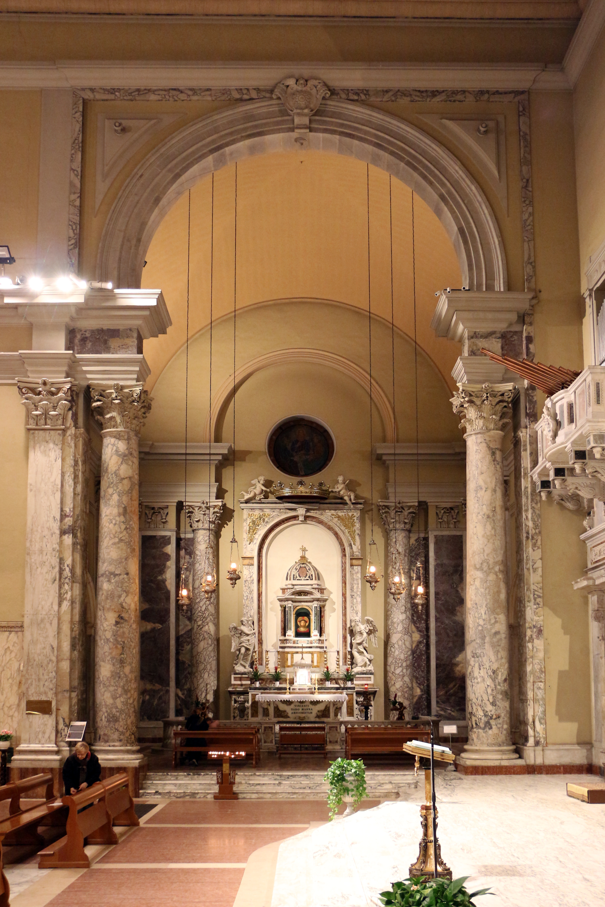 Duomo (Livorno) - Interior